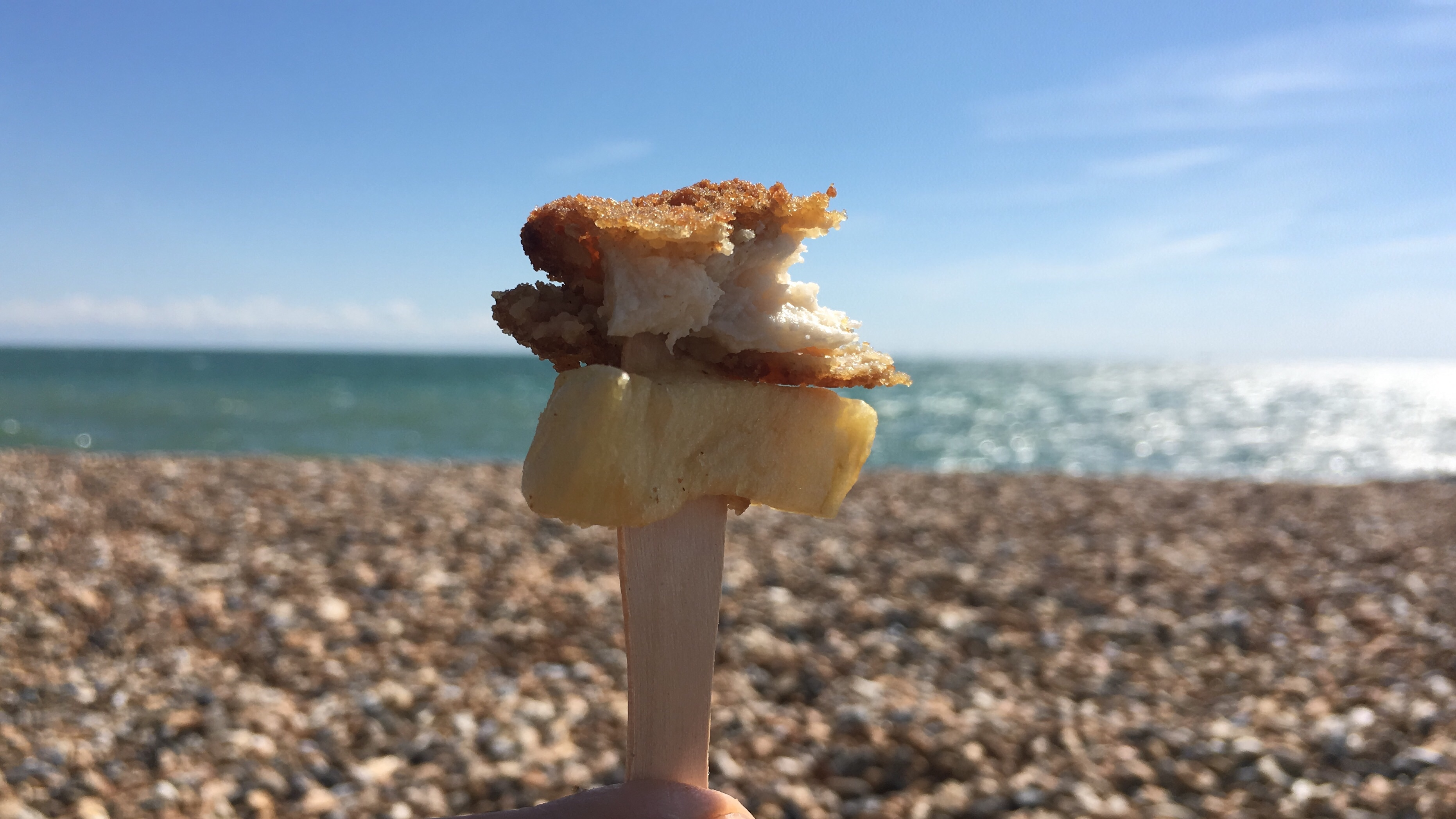 Fish and chips on Brighton beach made with VBites Fish Steak.